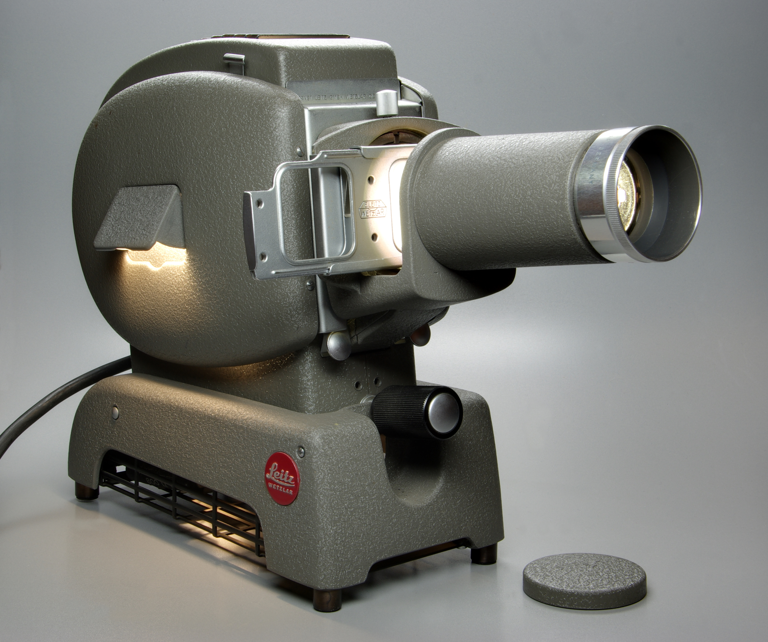 Leitz Prado 500 slide projector in operation